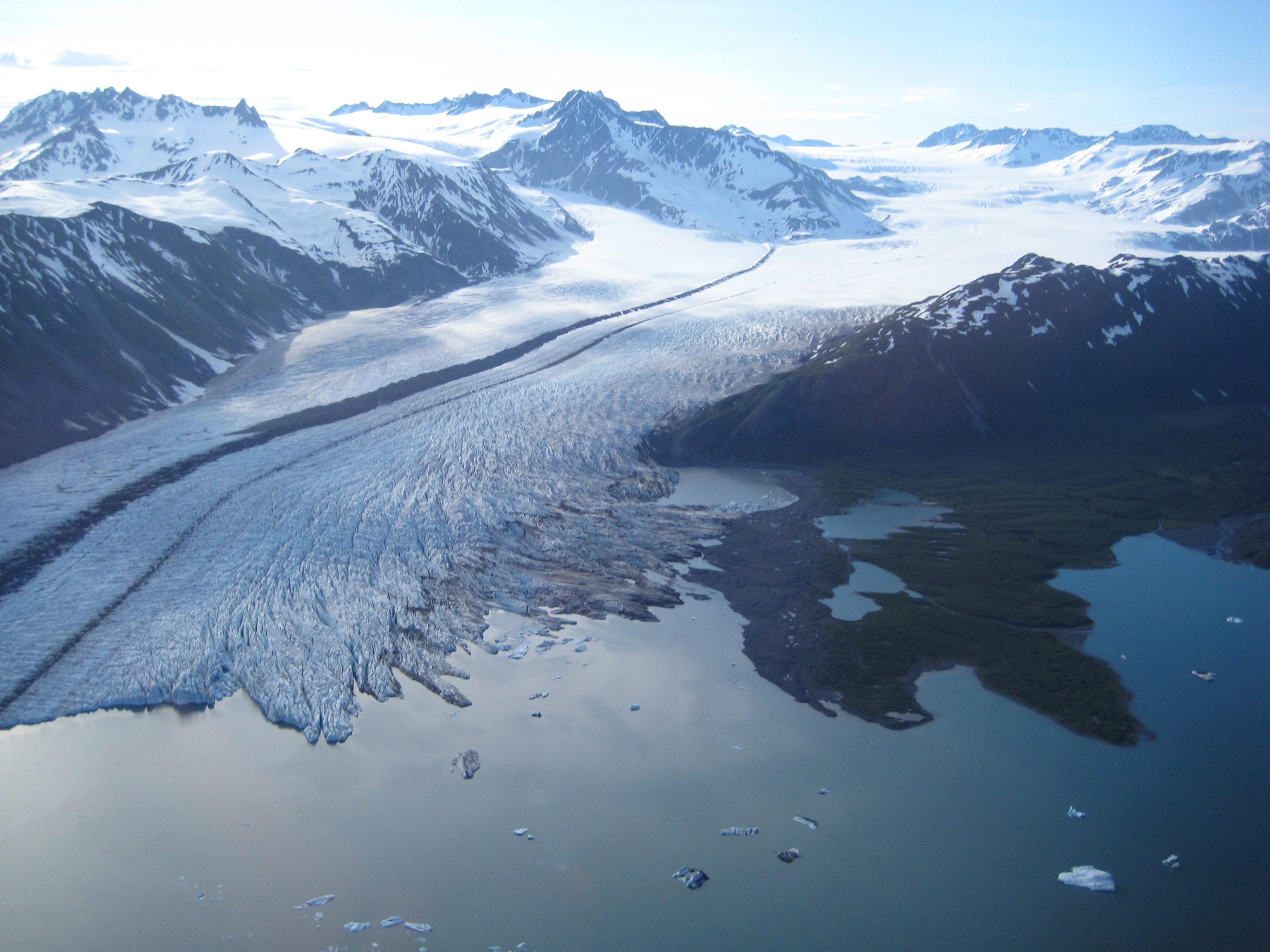 Learn more about glaciers and glacier research in Alaska's national parks at NPS Photo